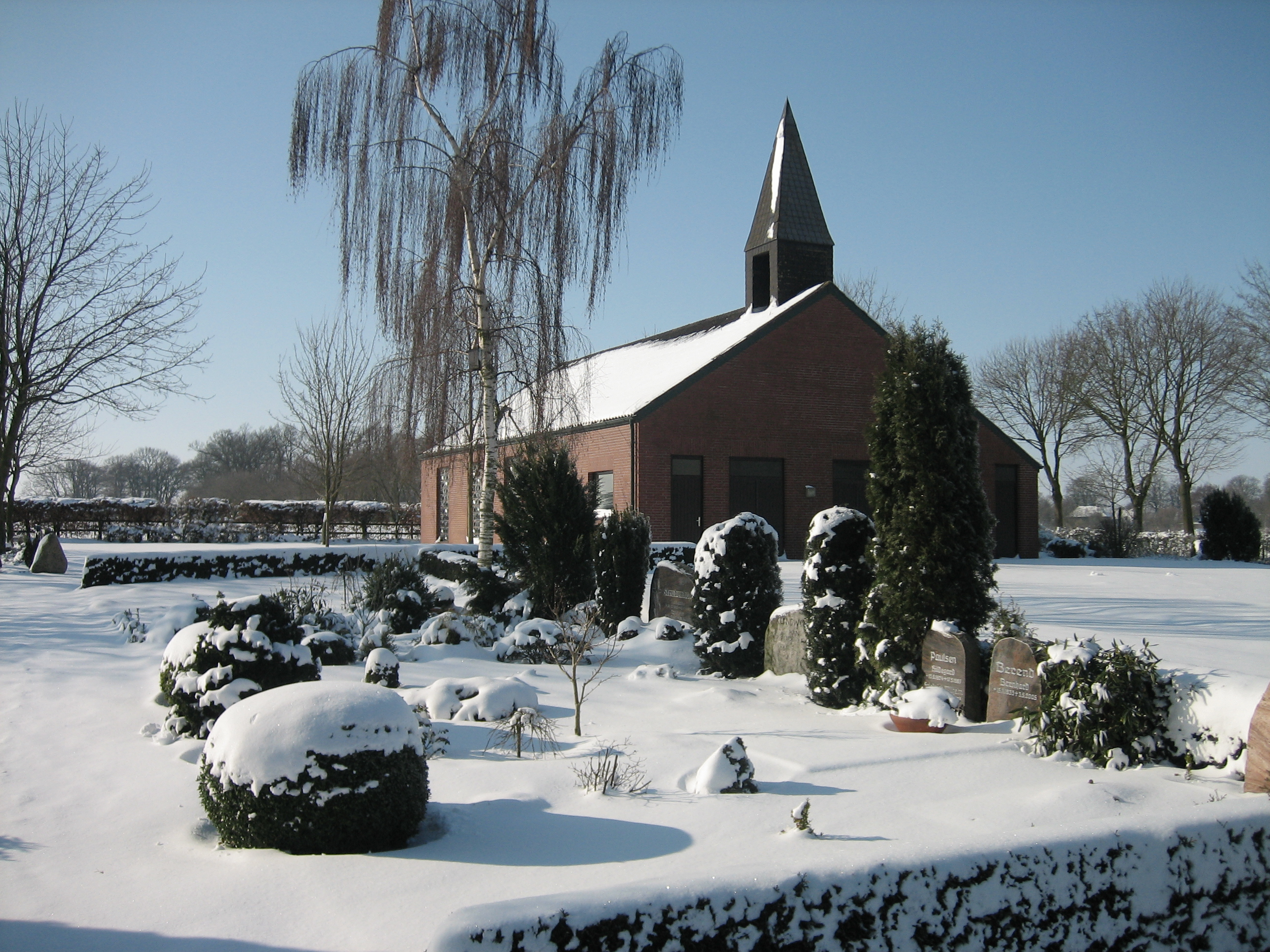 churchyard and chapel in Wohnste, Lower Saxony, Germany